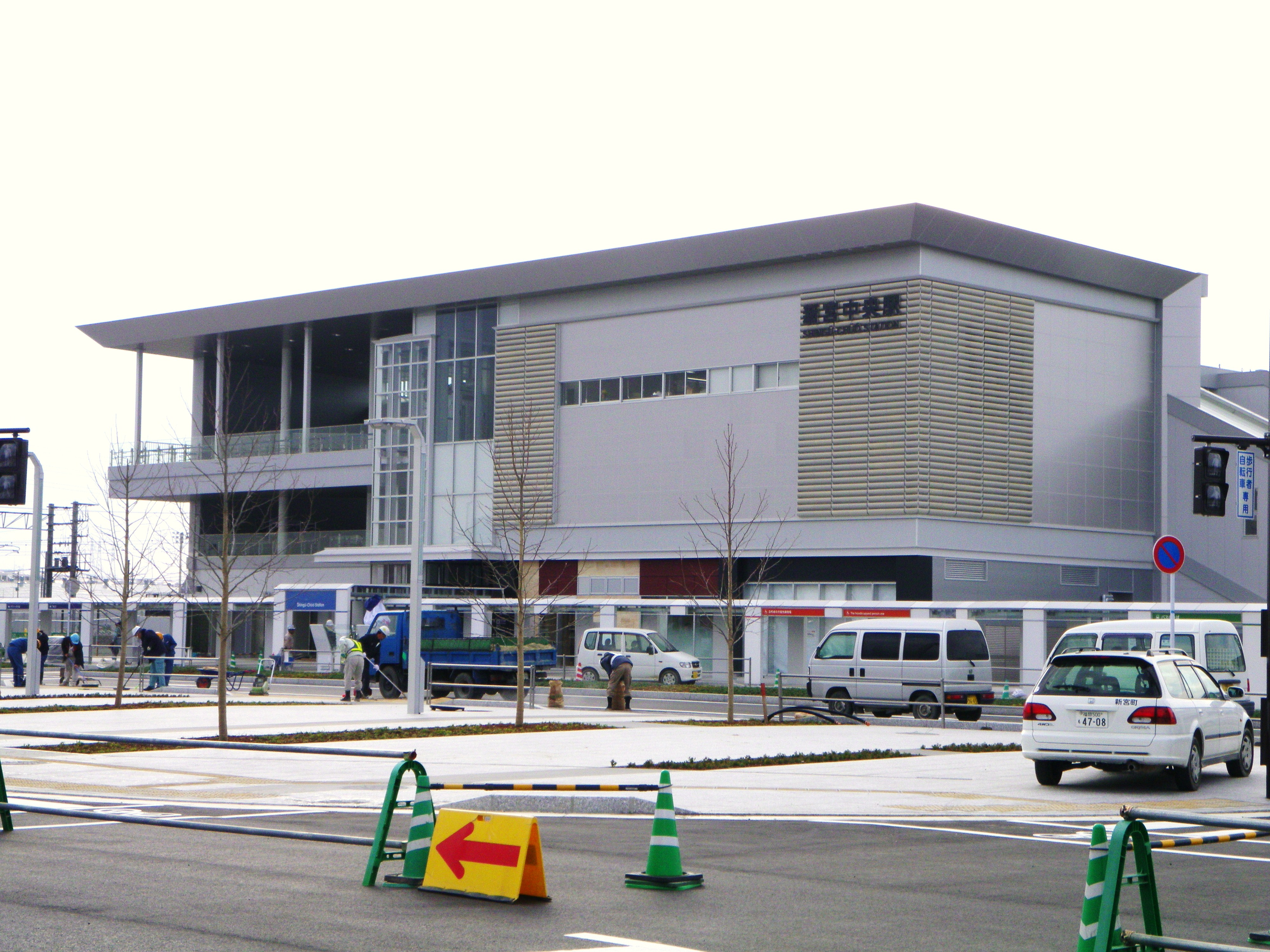 Kyushu Railway Company Shingu-Chuo Station (Kaminofu, Shingu Town, Fukuoka, Japan)